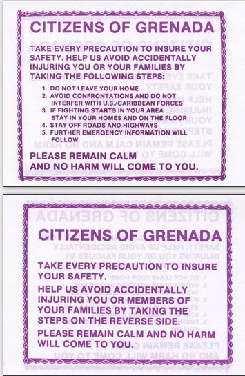 Both sides of the leaflet dropped over Grenada during Operation Urgent Fury.